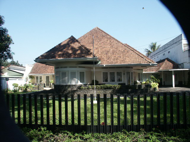 Nijlandweg Bandung